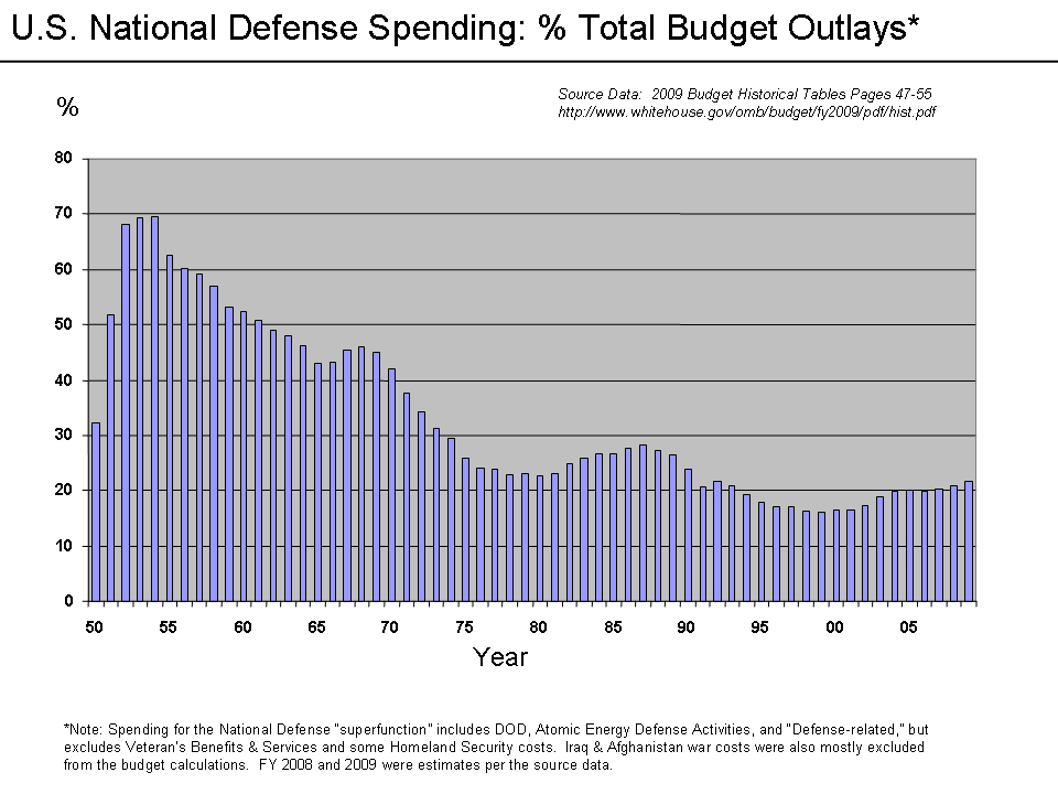 U.S. Defense Spending as a % of Total Outlays Understanding the numbers The bars in this diagram reflect budgeted amounts, which exclude spending for the wars in Iraq & Afghanistan (about $750 billion from 2001-2008), which were funded via supplemental appropriations. Further, it appears that homeland security spending is not entirely included in the budgeted amounts described as defense spending per the budget historical tables; these amounts are spread in other "buckets." Using a different source (GAO data, which is on the accrual basis rather than cash basis) for FY 2008, roughly $800 billion was spent for the Department of Defense, Iraq & Afghanistan wars, and Homeland Security. This gives a higher ratio, as follows: 800/2,979 outlays = 27%. 800/2,524 receipts = 32%. The GAO number for Veteran's Affairs for 2008 was over $400 billion, versus $50 billion in 2007, which includes an estimate for future costs. Adding this number would not be a meaningful comparison versus prior years, but would indicate we will likely be spending over a $1 trillion for each of the next few years without major reforms.